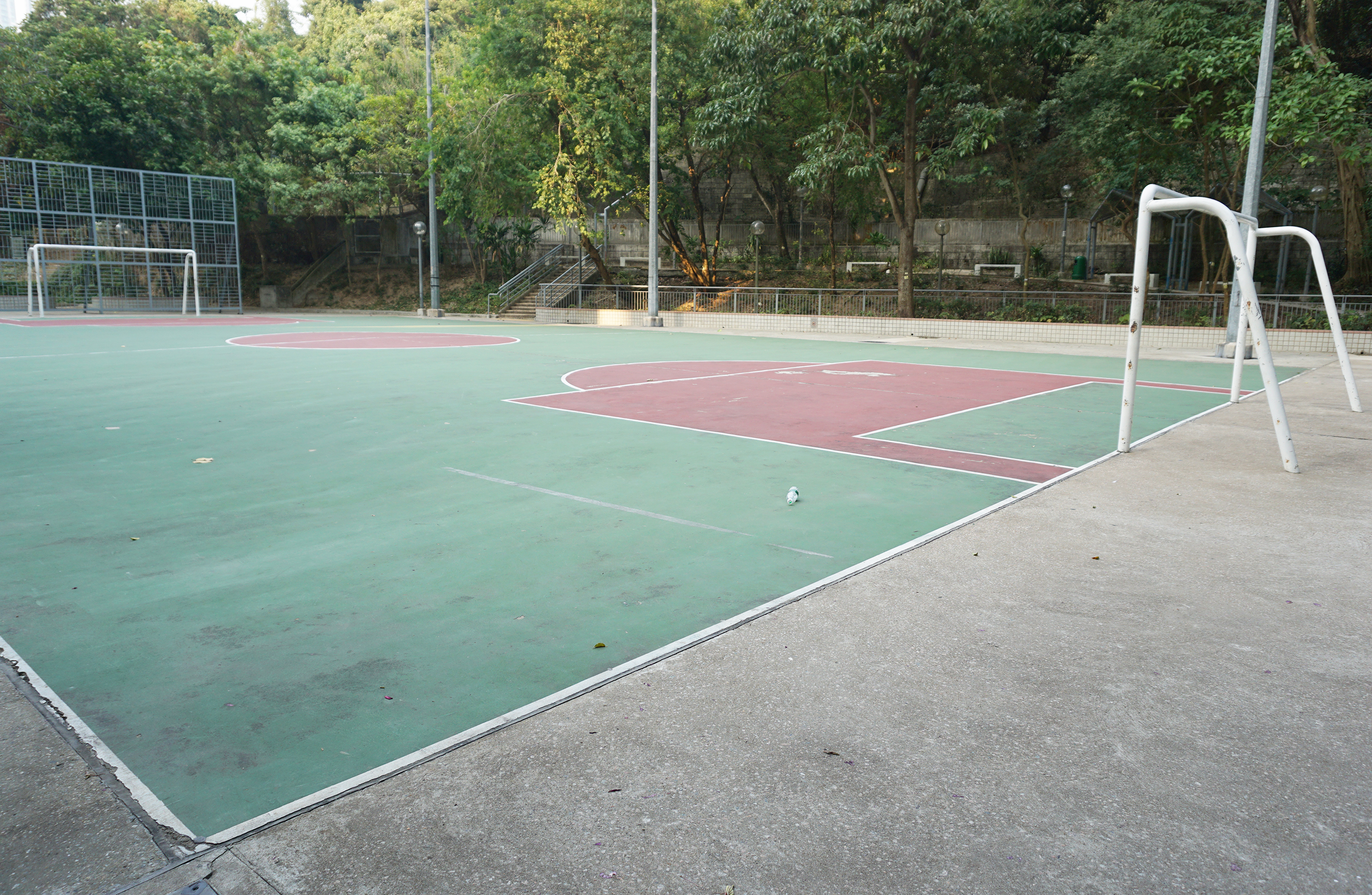 Lung Hang Estate in Tai Wai, Hong Kong.